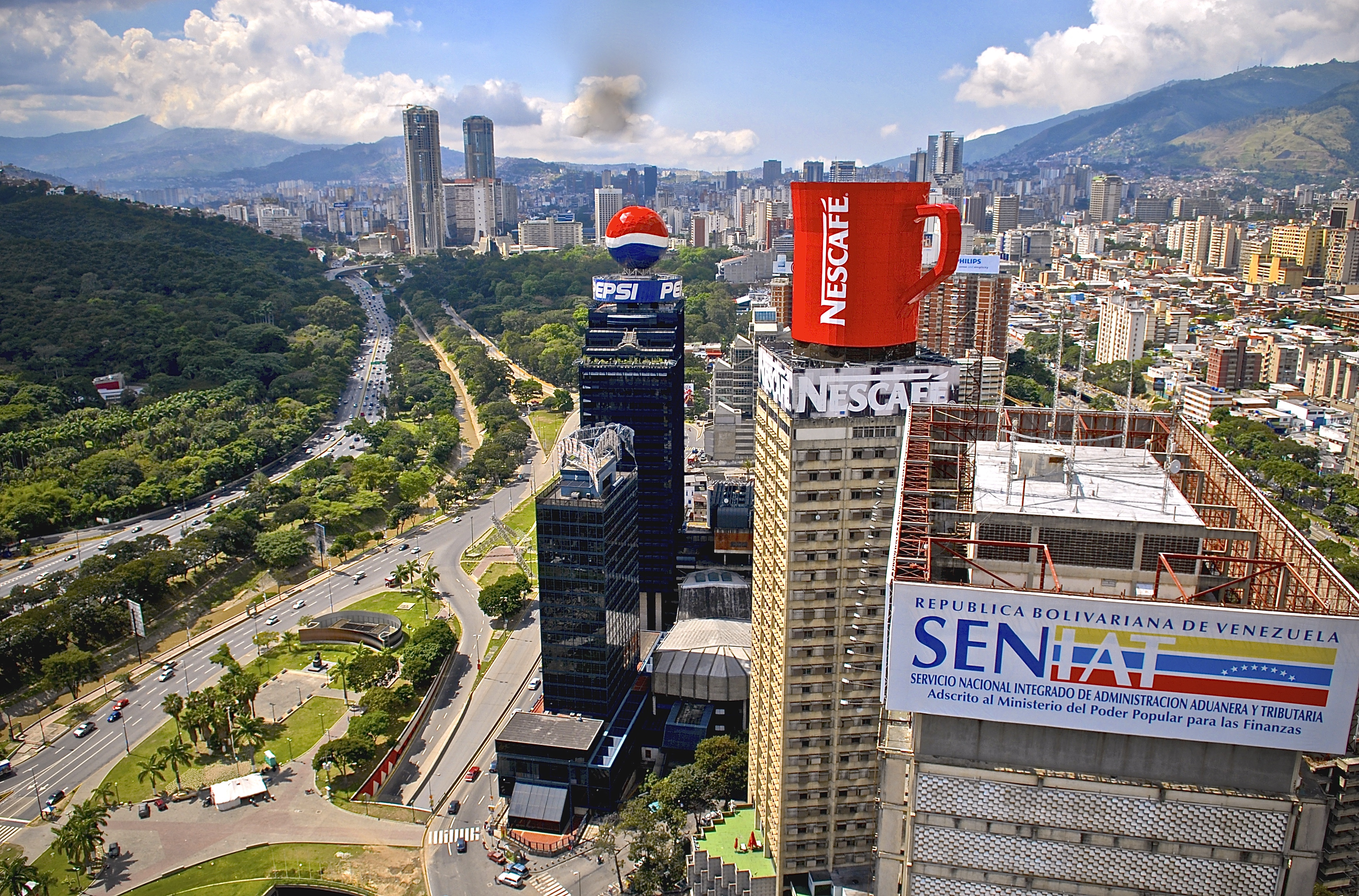 Aerial view of Caracas from Plaza Venezuela.